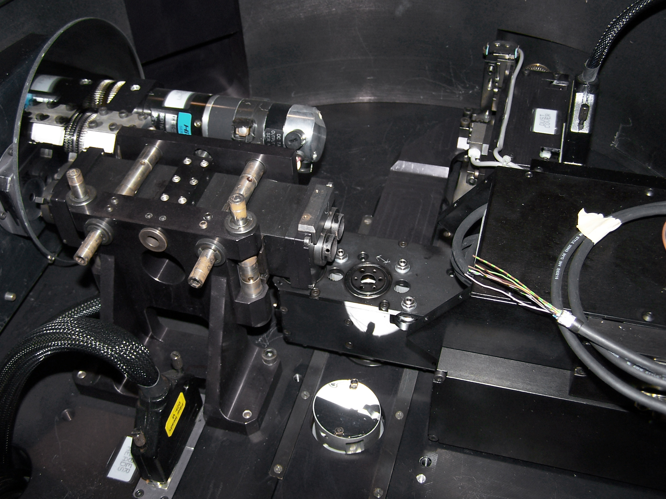 The very successful HARPS spectrograph, attached to ESO’s 3.6-metre telescope at La Silla, Chile, has been enhanced with a new capability: the most precise polarimeter in the world. Polarisation describes the preferential plane in which light vibrates upon propagation and is measured with a polarimeter. The first observations with the HARPS polarimeter show that this new instrument already exceeds expectations. It can detect the polarisation of light, at a level as small as 1 part in 100 000, without any disturbances from the Earth’s atmosphere and the instrument itself. Together with the unprecedented stability of the spectrograph, this renders the HARPS polarimeter the most precise of its kind. Furthermore, it is the only polarimeter of its kind in the southern hemisphere.